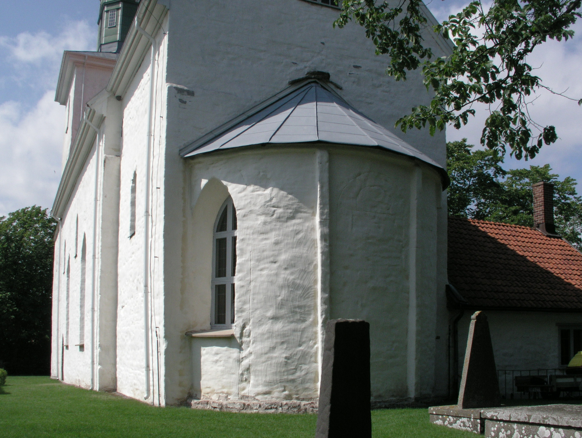 Resmo kyrka/church, Mörbylånga. Apse. The photo was taken by Håkan Svensson (Xauxa) the 2rd of August 2005.